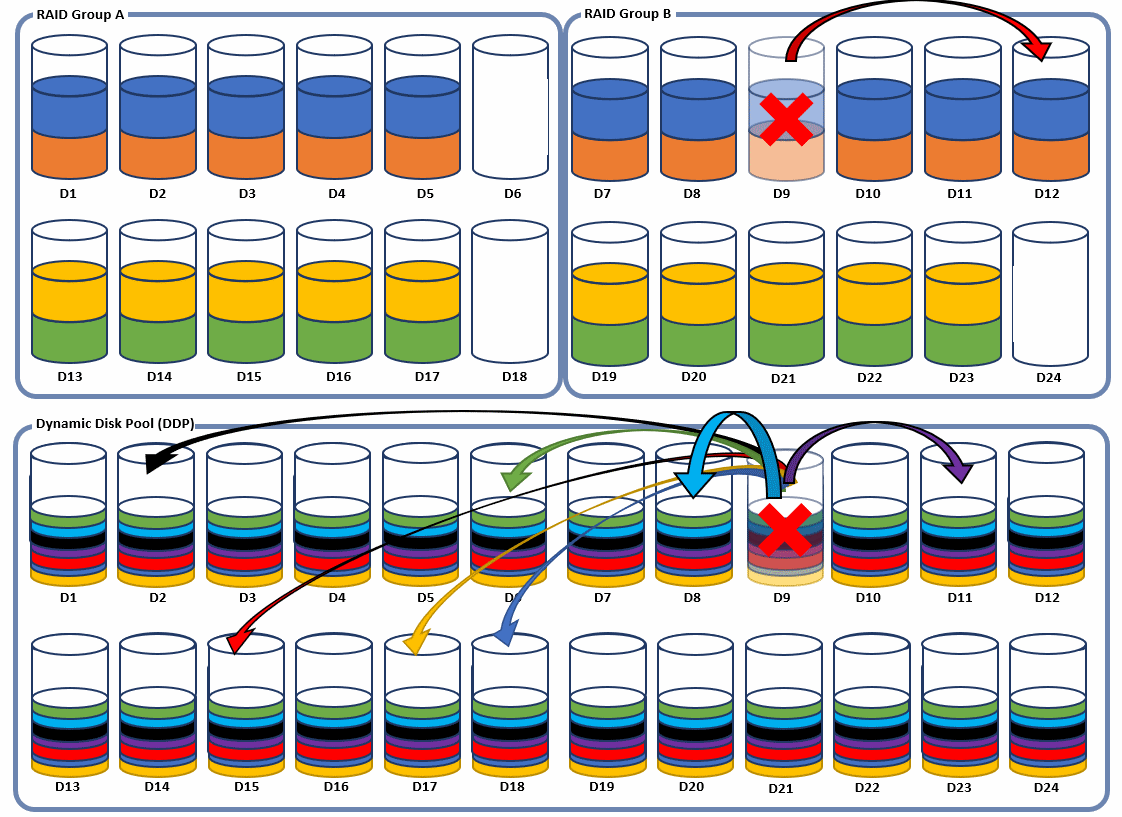 RAID comparison with DDP